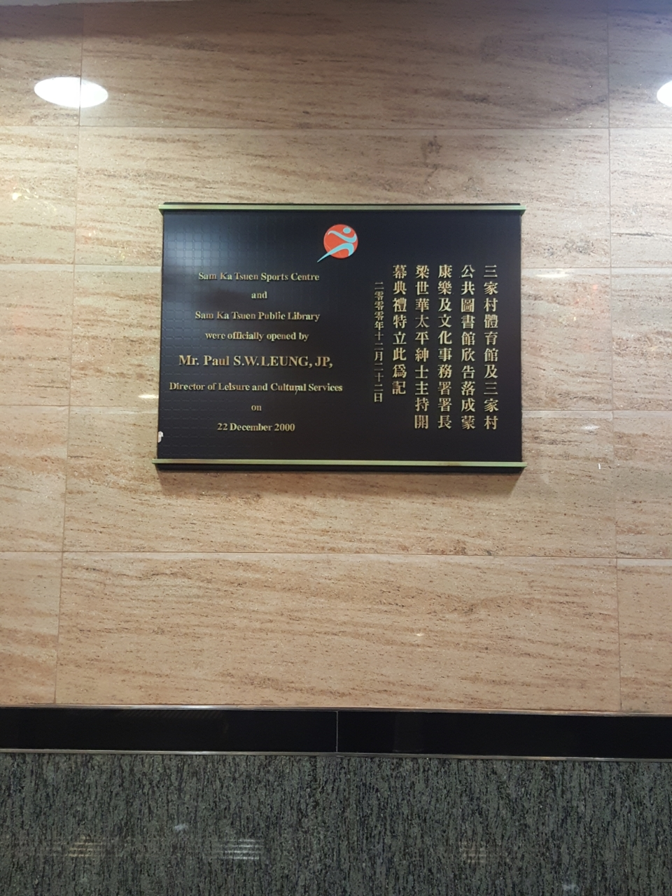 Lei Yue Mun Municipal Services Building Opening Plaque